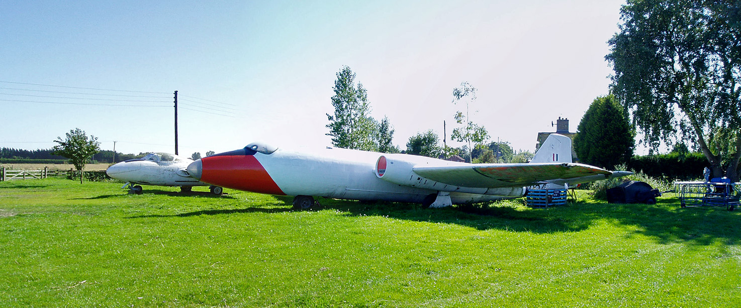 The Vampire T.11 XK625 & the Canberra B.2 WH657 at Brenzett Aeronautical Museum